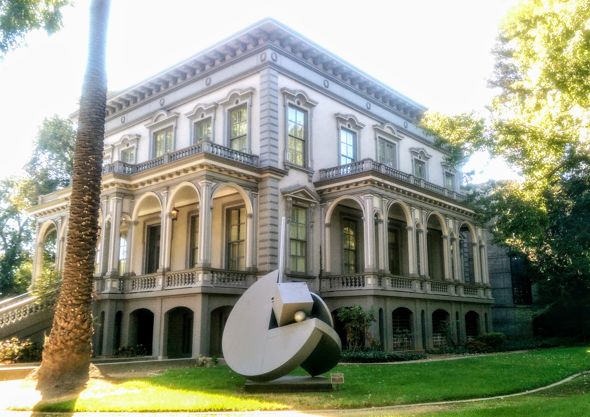 The original building of the Crocker Art Museum in Sacramento, California. Photo by Jim Heaphy.